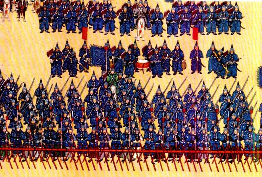 Soldiers of the blue banner parading in front of Emperor Qianlong